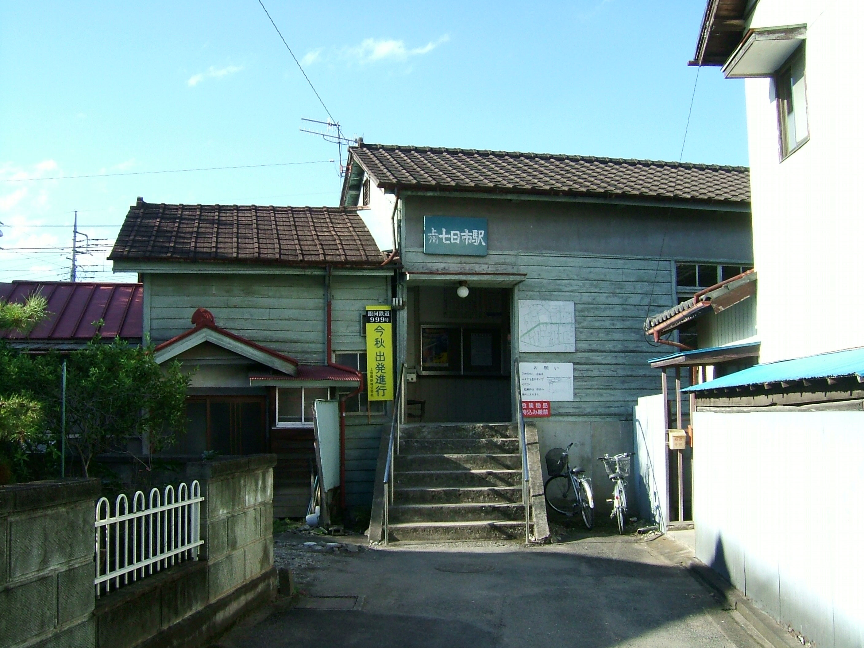 Jōshū-Nanokaichi Station building (Jōshin Dentetsu Jōshin Line)